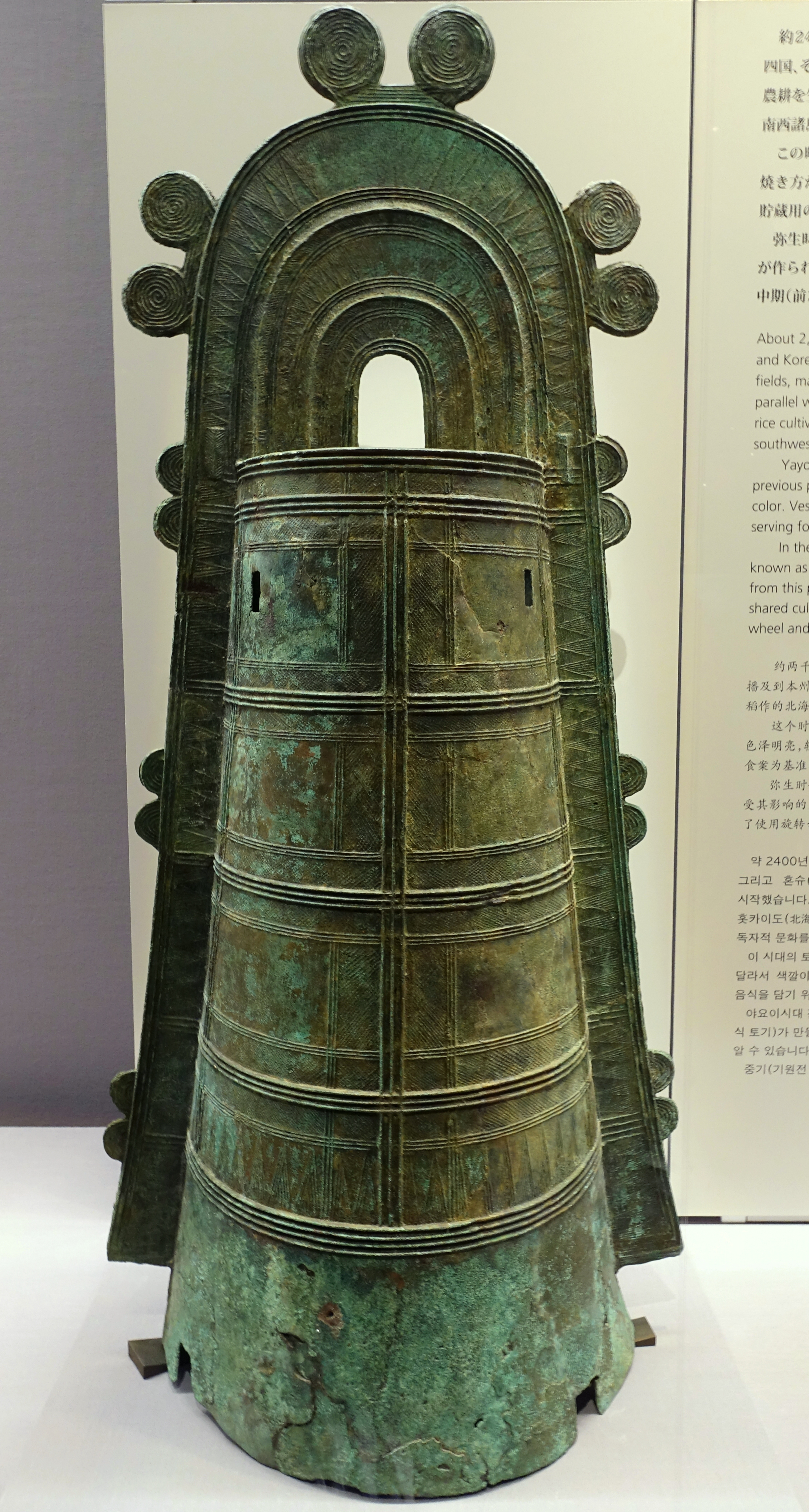 Exhibit in the Tokyo National Museum - Tokyo, Japan.